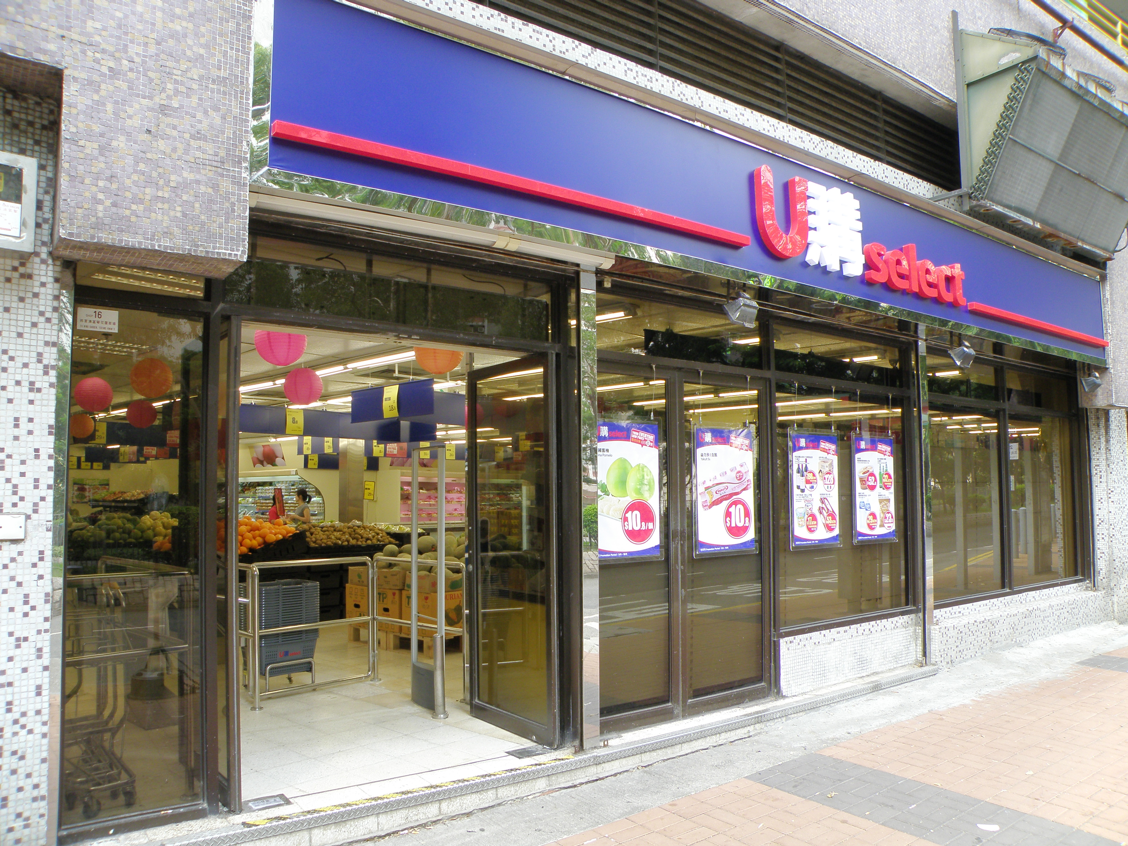 U Select Stores in Hang Hau, Hong Kong.